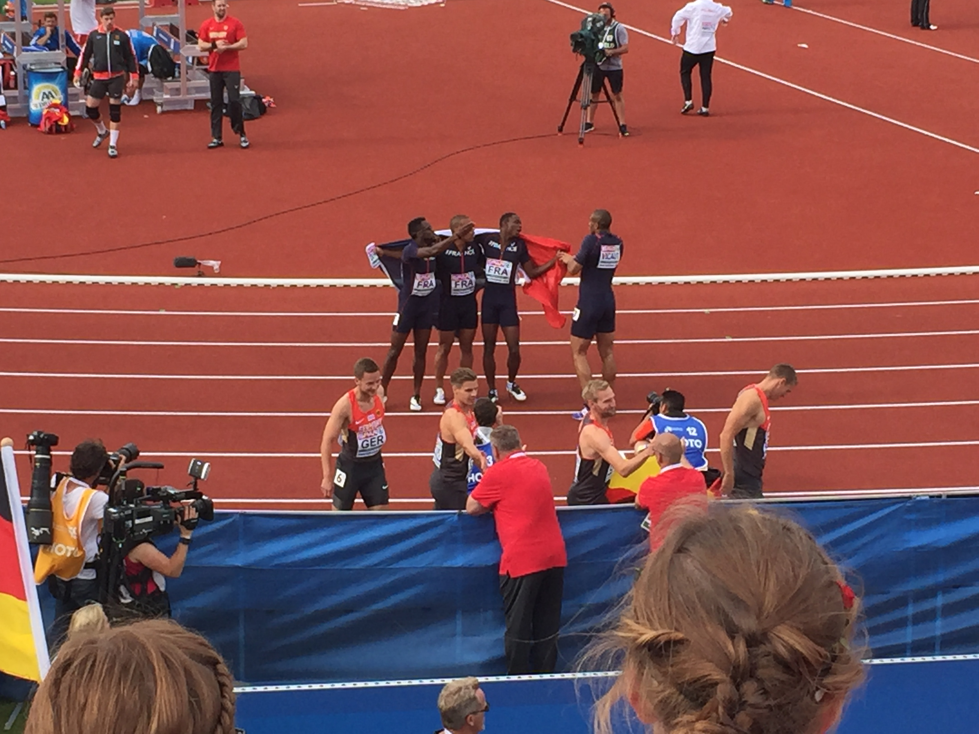 European Athletic Championships 2016 in Amsterdam - 10 July 2016 European Championships in Athletics (10 August) Schedule for this day: Finals: 17:00 High Jump M 17:05 400m Hurdles W 17:10 Hammer Throw M 17:15 3000m Steeplechase W 17:25 Triple Jump W 17:30 Shot Put M 17:35 4 x 100m W 17:45 1500m W 17:55 4 x 100m M 18:10 5000m M 18:30 800m M 18:40 4 x 400m W 18:50 4 x 400m M